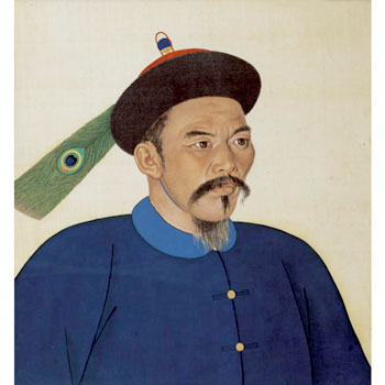 Dalhan (达尔汉 da er han), was an officer of the Qing Army.